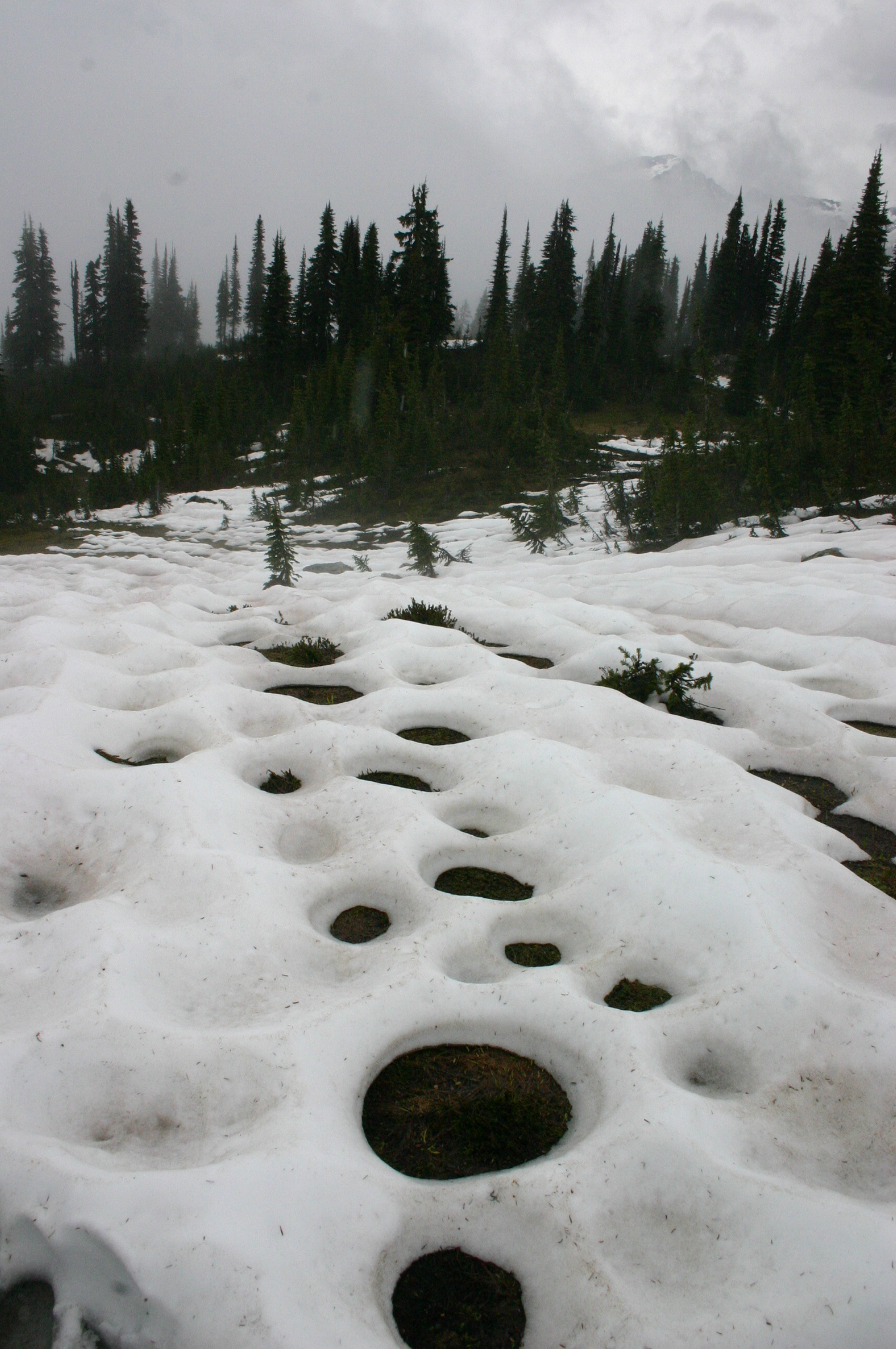 In Spring, new vegetation gives off heat to melt its surrounding snow, creating this circular pattern of snowmelt.